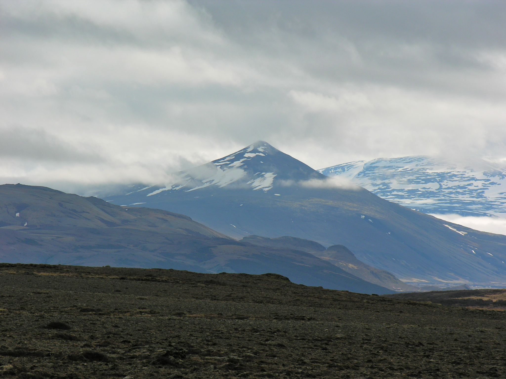 Mountain Strútur, viewed along road 519 in Húsafell